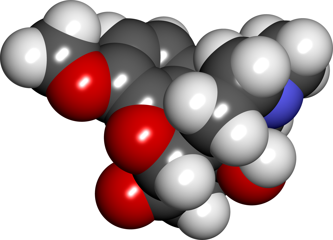 Space filling model of oxycodone.